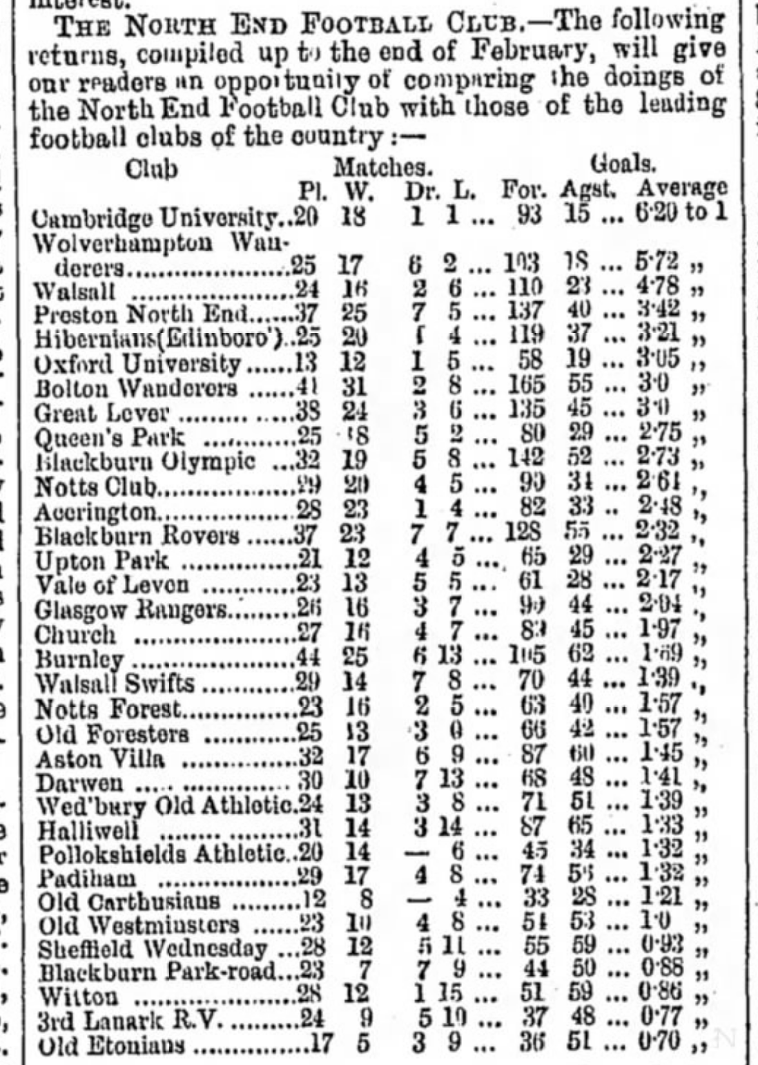 Table showing goal average used to compare football clubs, from March 1885